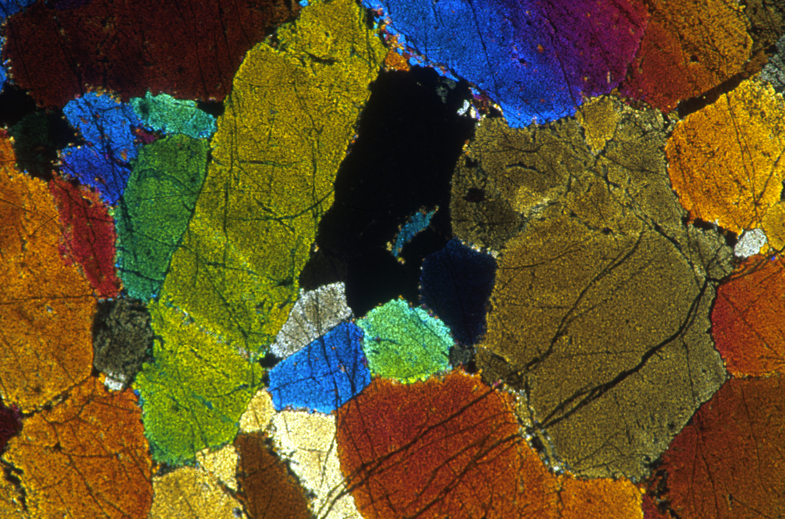 Photomicrograph of olivine adcumulate, Archaean Komatiite, Agnew, Western Australia. X polars (FOV 20mm) Photo credit: R Hill